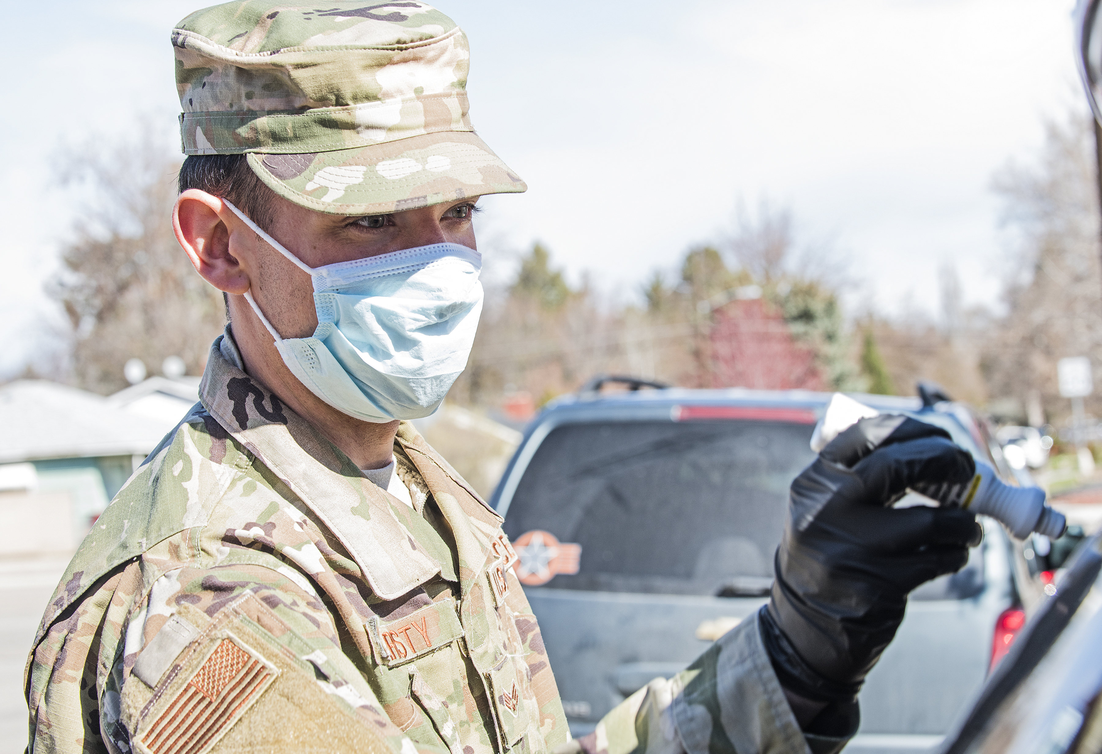 Idaho National Guard Airmen are helping at the St. Vincent de Paul Food Pantry in a time of need. Food is donated to pantries like St. Vincent de Paul from the food bank and several local companies as part of the Feed America program. 124th Fighter Wing Airmen helped by unloading food from trucks, sorting the food into carts and helping load the donated food into people's cars that came by for their grocery needs on April 3, 2020. The Idaho National Guard is helping at the pick-up station at St. Vincent de Paul because the need for more manpower increased as more people were coming for food. The call for the Idaho National Guard came through the Idaho Office of Emergency Management from the Idaho Foodbank to help with a shortage of support during the hardship of COVID-19. Currently they are handing out food to anyone that shows up during the pantry's pick-up hours. (U.S. Air National Guard photo by Master Sgt. Becky Vanshur)